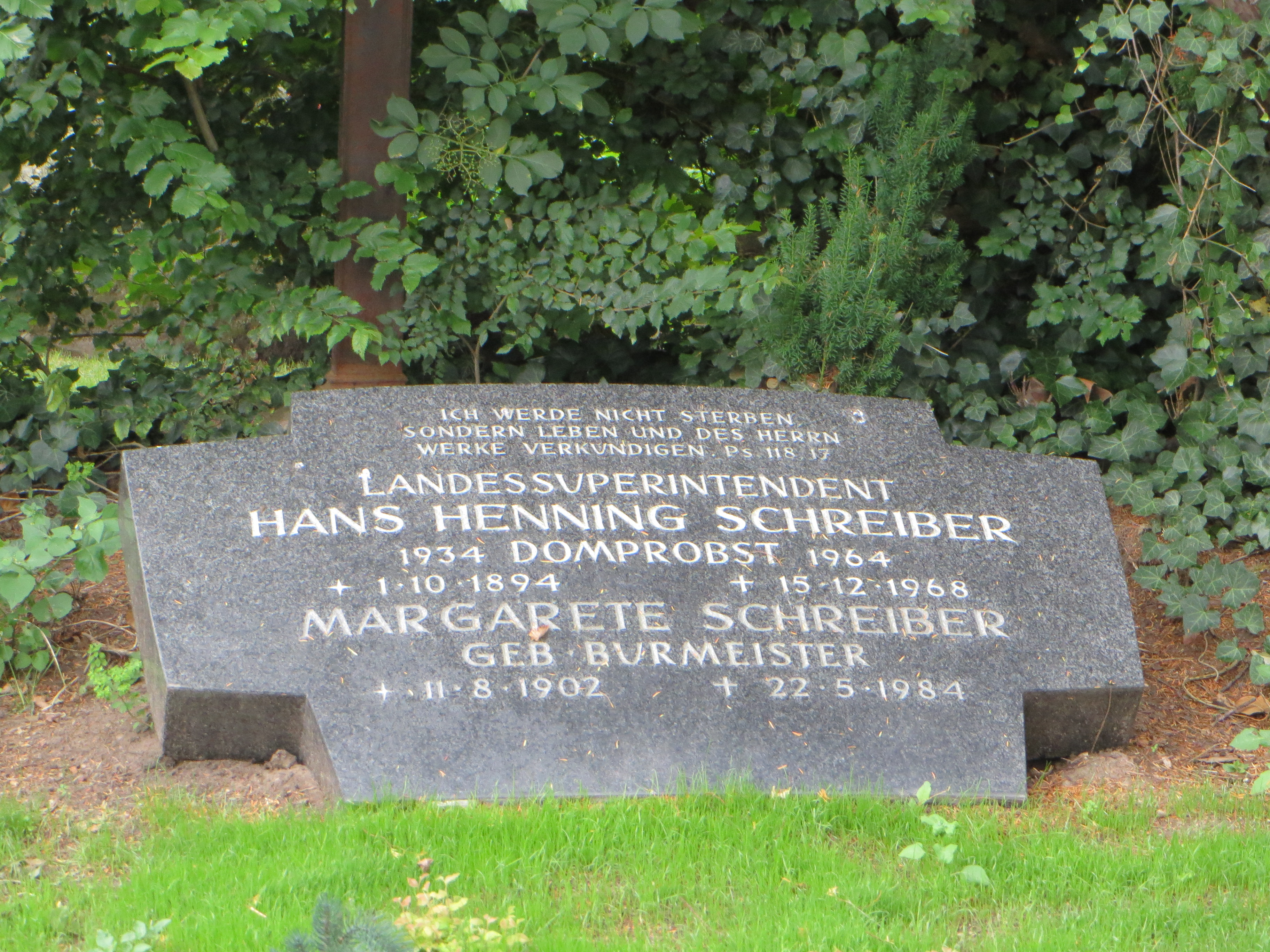 Ratzeburg Cathedral Cemetery